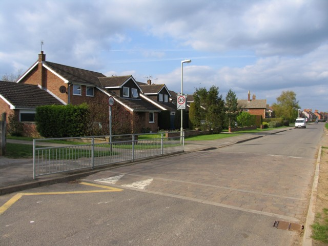 Brooke Road. Most of the houses on this side of Oakham have been built since the Second World War.